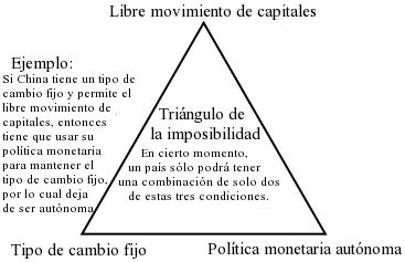 Impossible trinity in Spanish